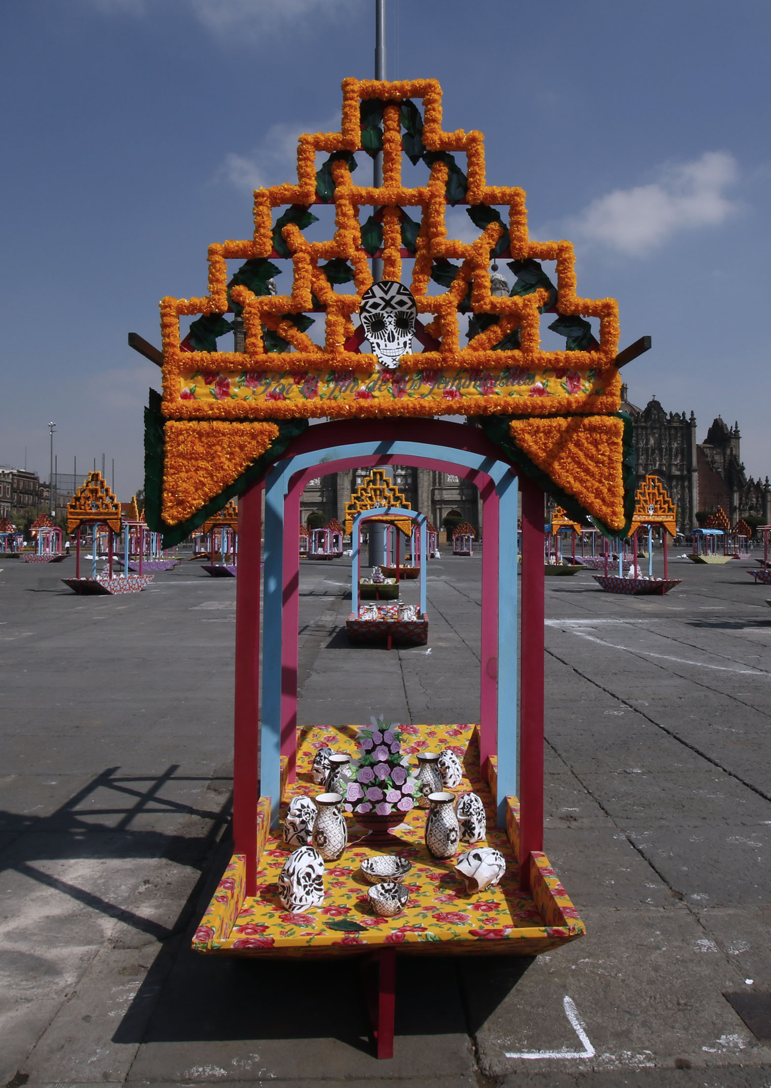 Detail of art installation Canto de Agua (Song of water) by Betsabeé Romero (1963-) which was held in the Zócalo of Mexico City (2016). The installation combined the cultural traditions of the Day of the Dead and the trajinera, a type of flat-bottomed boat, with the social concerns of the present. The full installation included 113 trajineras-offerings commemorating those who had died. The trajineras were created by Mexican artisans from Ciudad Nezahualcóyotl and reflect traditions of pre-Hispanic times in which trajineras circulated in Tenochtitlán. Photographs were taken by Milton Martínez, a photographer for the Secretaría de Cultura CDMX which sponsored the event, and released by them on Flickr. This photograph shows one of the 113 trajineras in the art installation in the foreground. It has been cropped from a wider photograph show more in the background